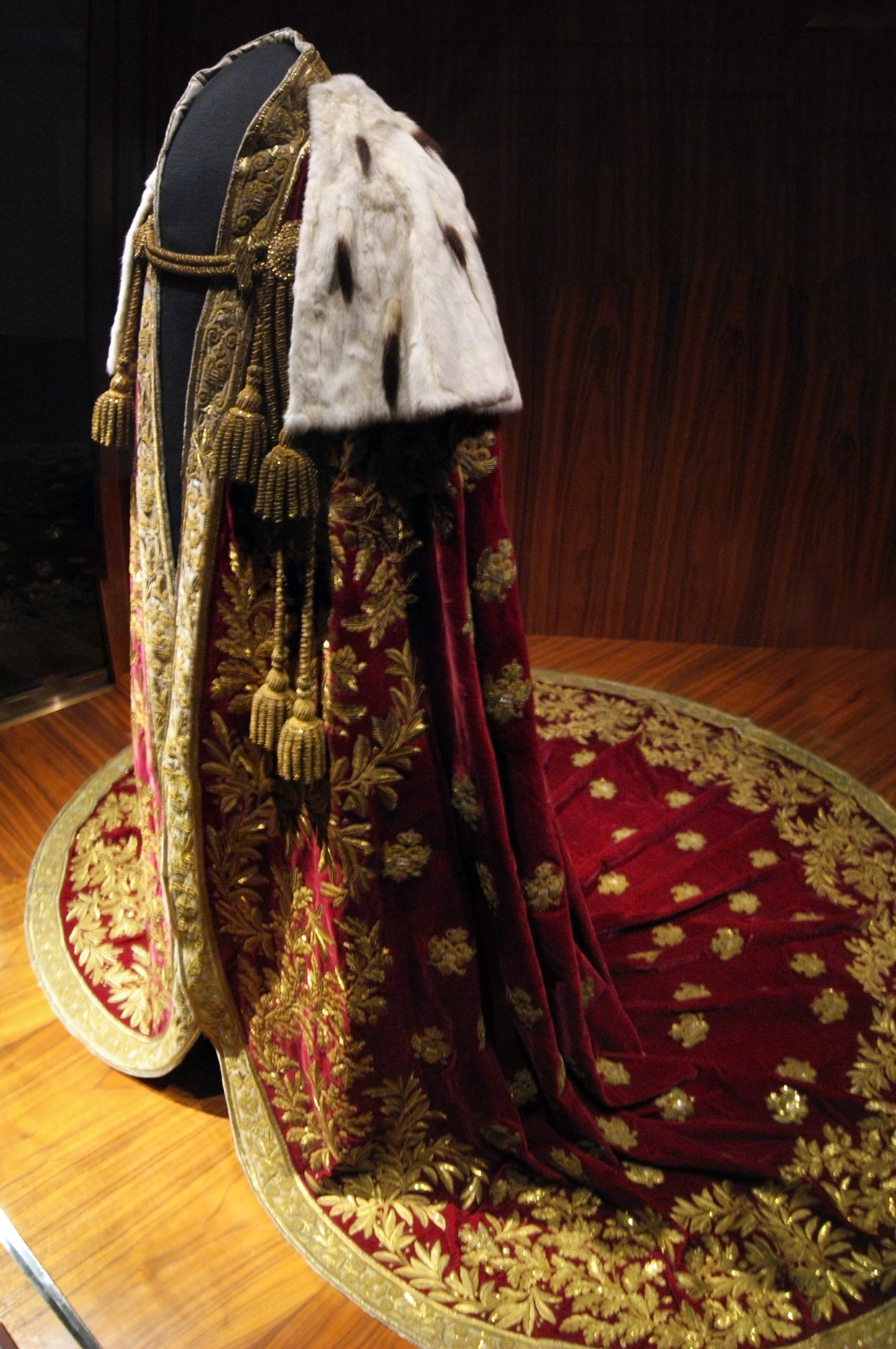 The mantle of the Austrian Empire Design: Philipp von Stubenrauch (1784-1848) Execution: Johann Fritz, Master Gold Embroiderer Vienna, 1830 Red and white velvet, gold embroidery, sequins, ermine, whit silk 276 cm long SK Inv. No. XIV 117